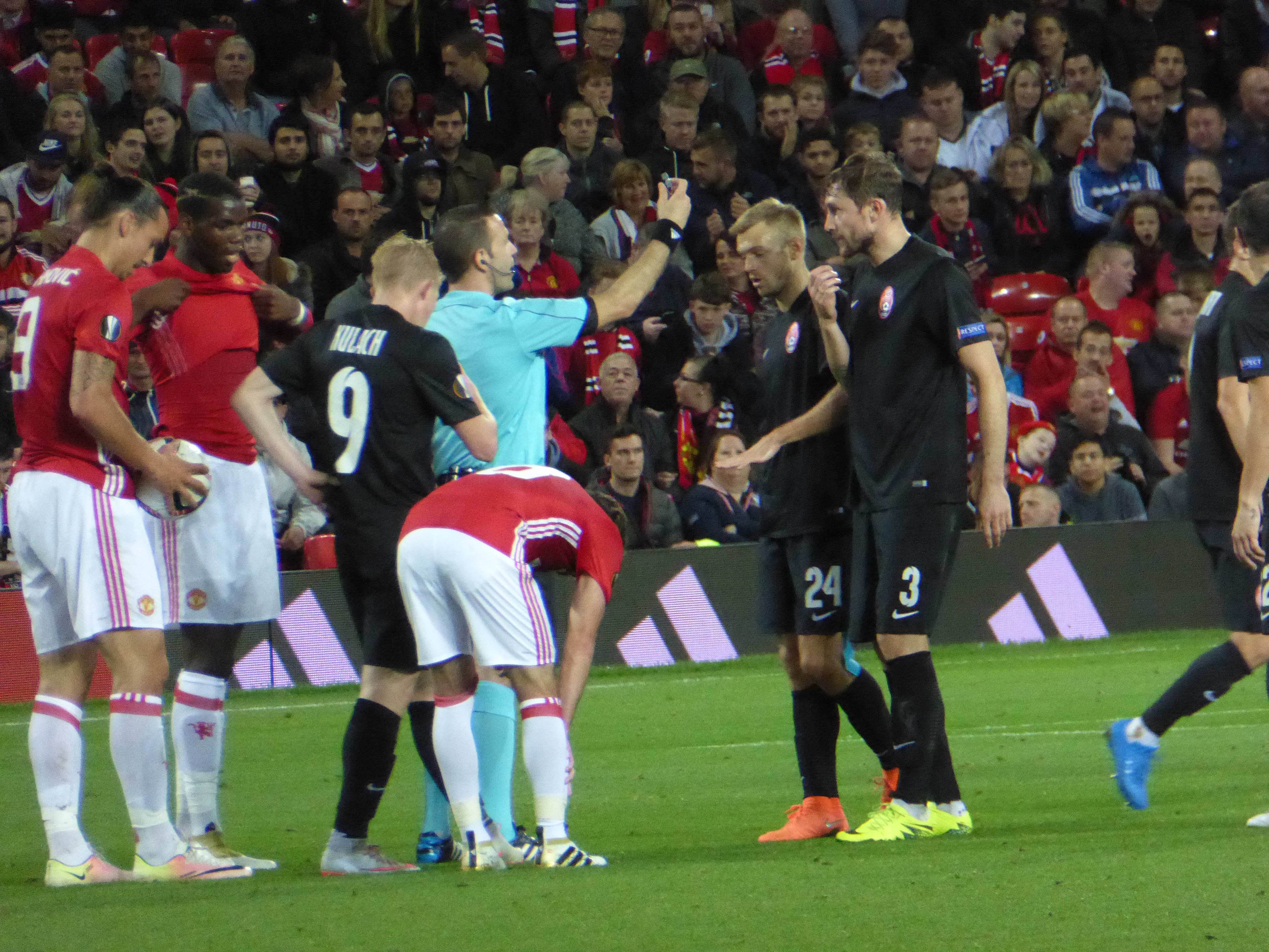 Manchester United v Zorya Luhansk (1-0), Europa League, Old Trafford, Manchester, Greater Manchester, England, September 2016